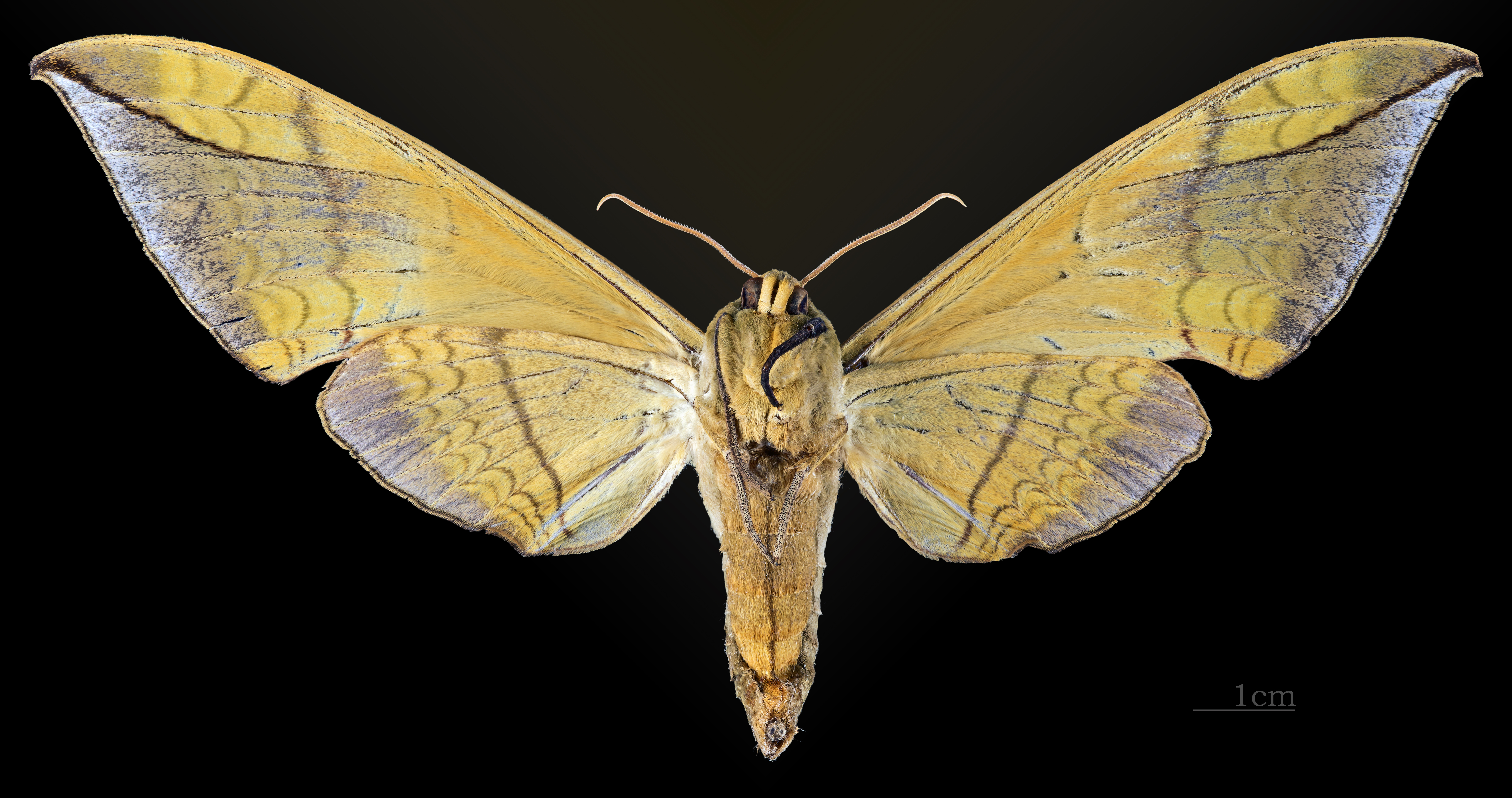 Callambulyx amanda - △ Ventral side Collection of the Mathematician Laurent Schwartz